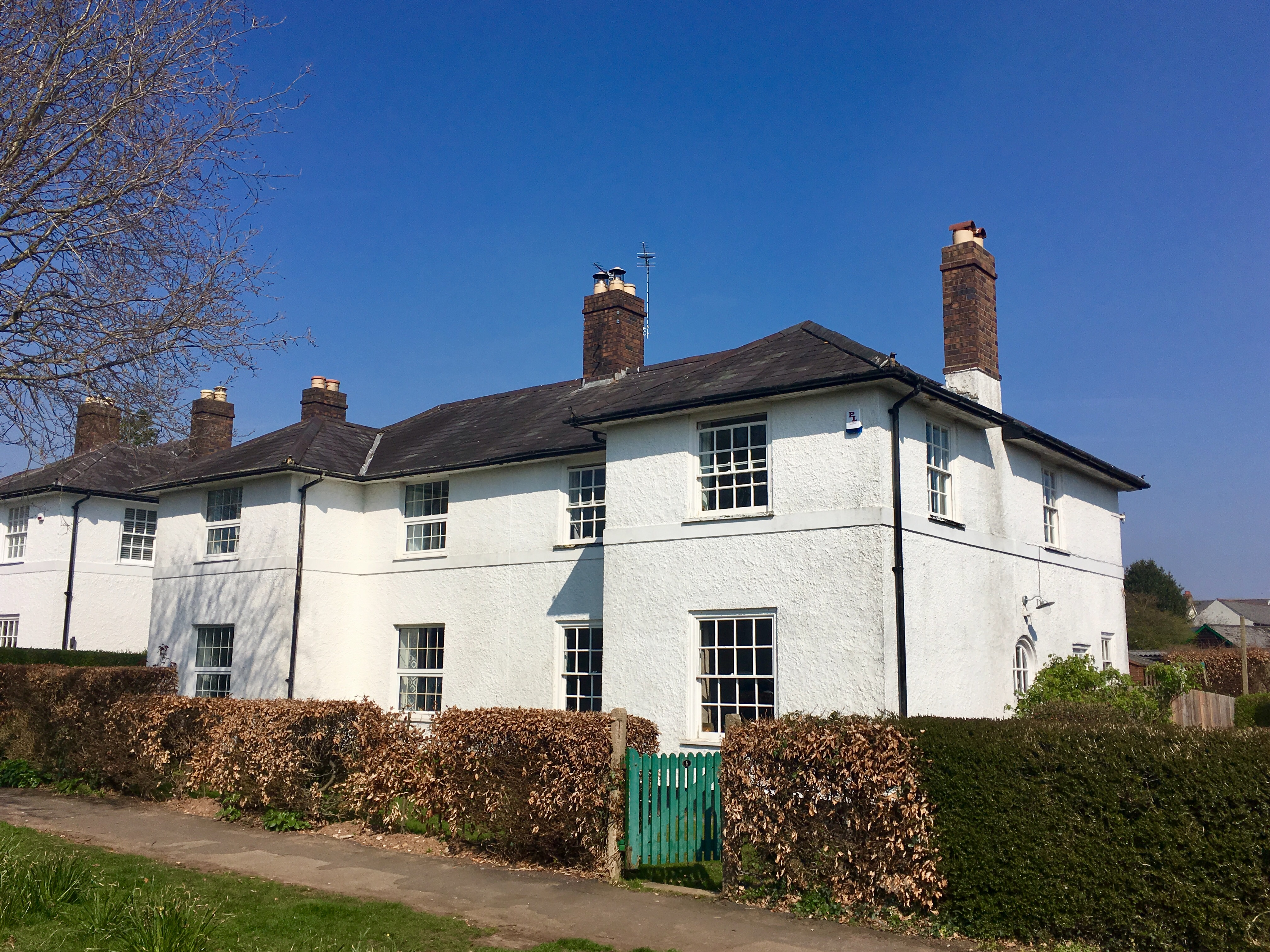 Nos. 4&6 Lon-y-dail Wikidata has entry Q29502794 with data related to this item.